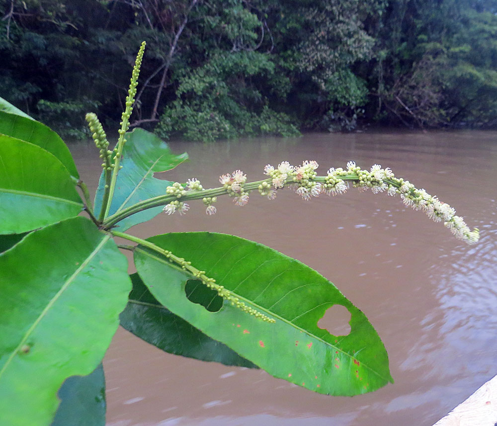 Found in the Amazon and Orinoco Basins. Photo from the Matamata River, Colombia.